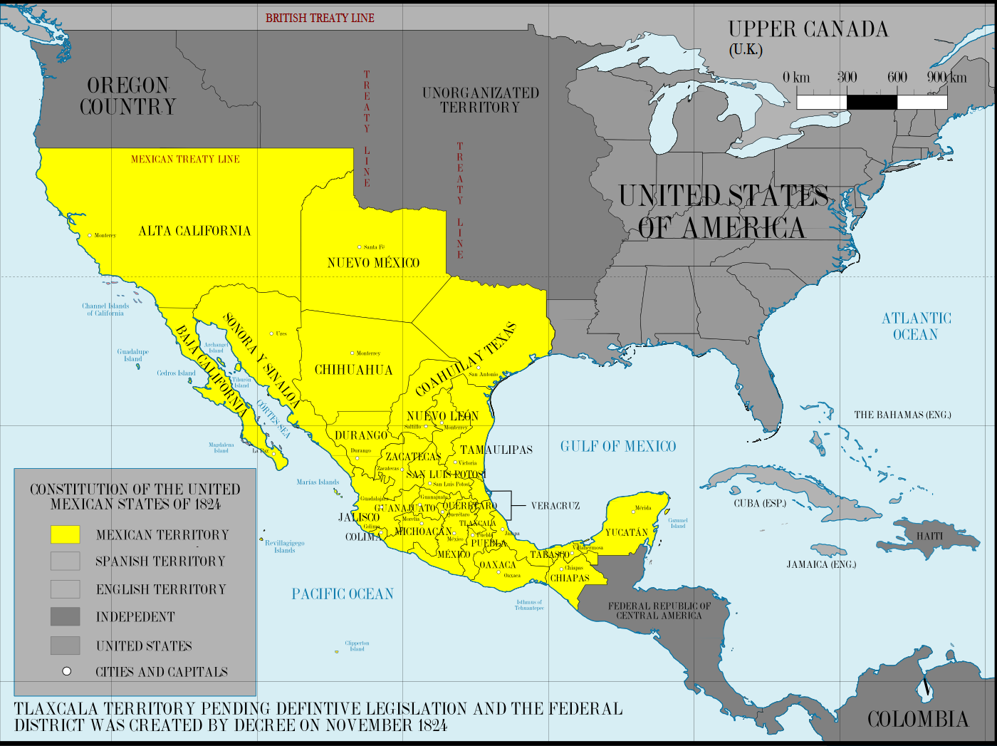 First Federal Republic of Mexico in 1824